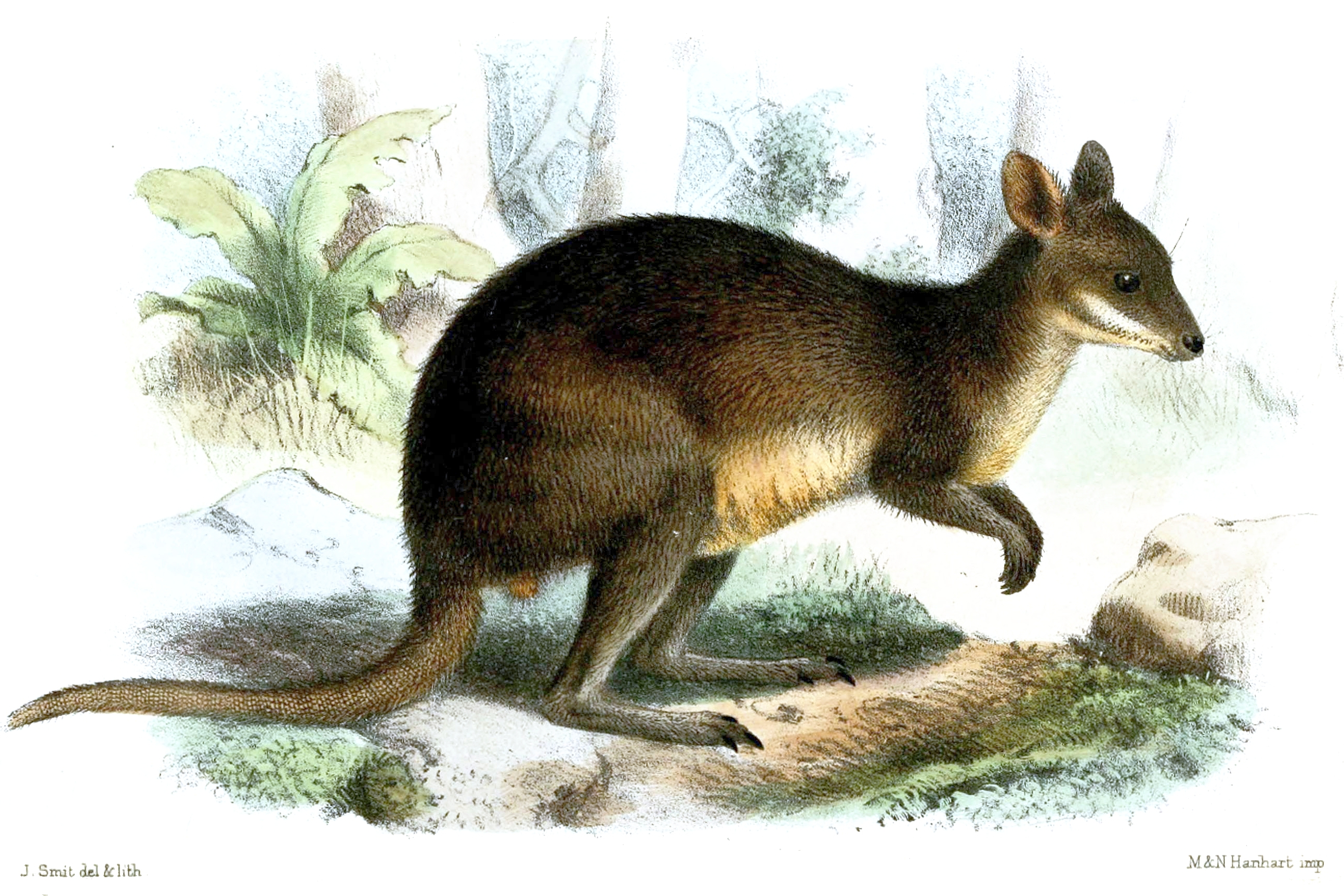 Macropus lugens = Thylogale browni